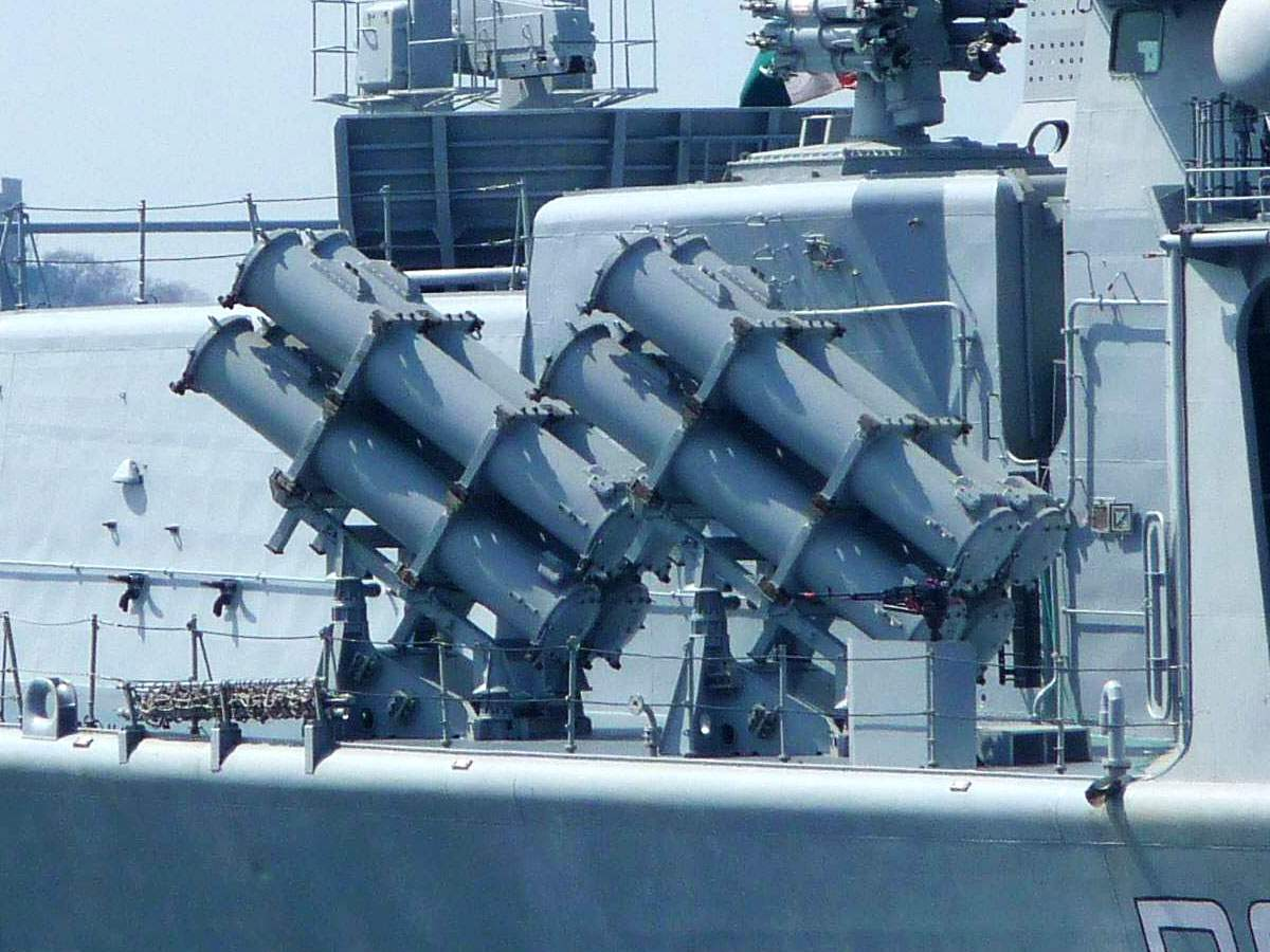 X-35 Missile Launchers (Indian Navy Destroyer DD61 «Delhi» in Vladivostok, Russia, 2011-04-19)